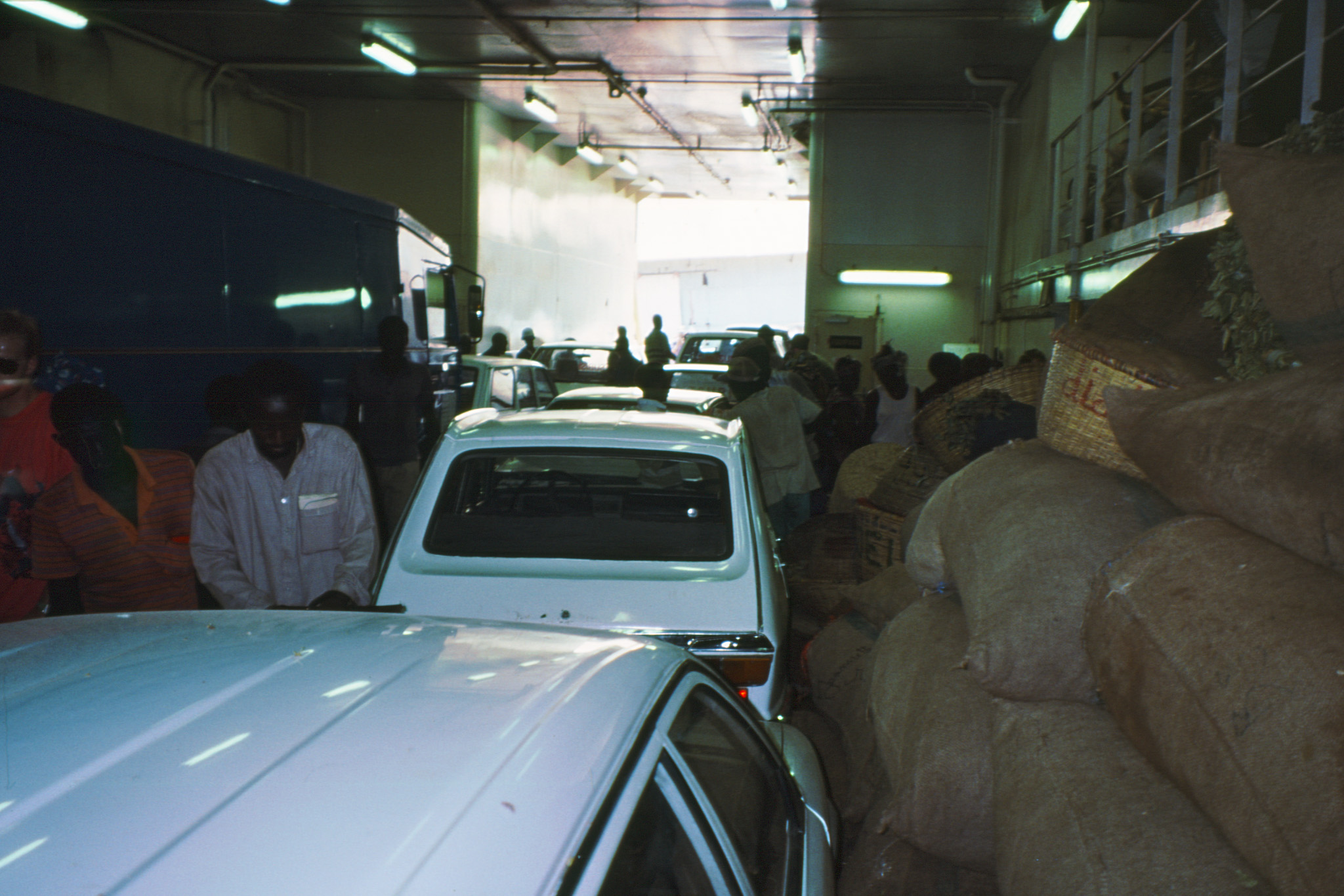 Car deck of MV Le Joola